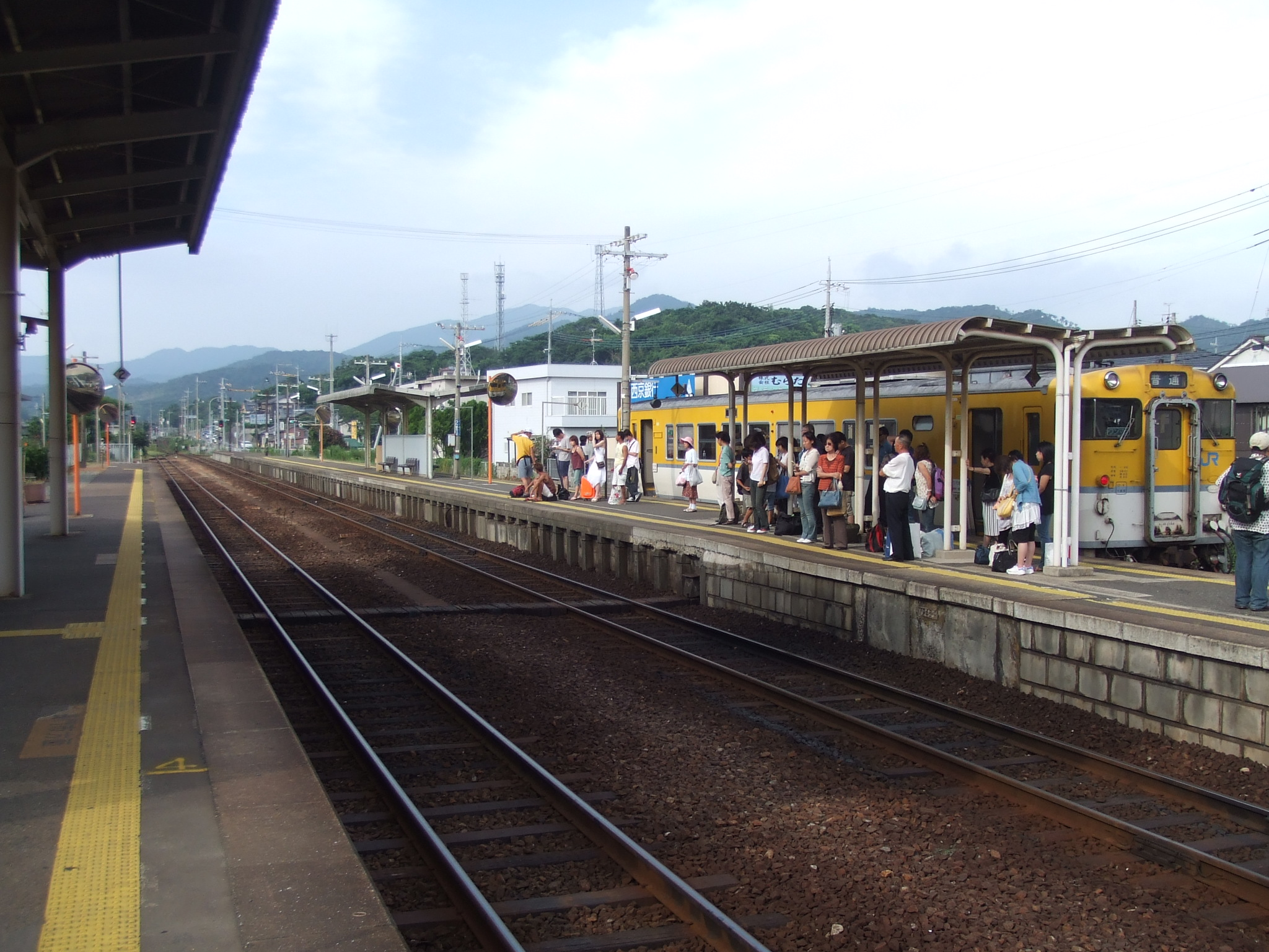 Platforms at Kogushi Station